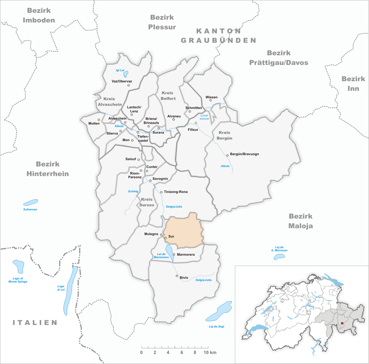 Municipality Sur